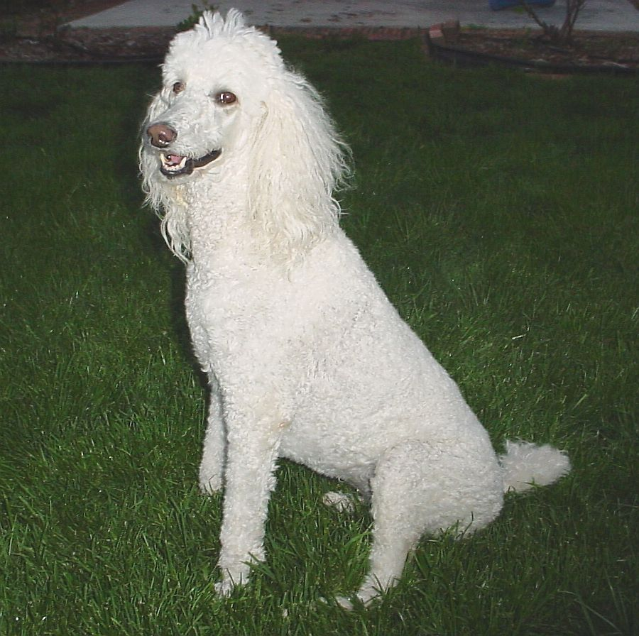 Sugar, a Standard Poodle. Picture taken by Guanaco